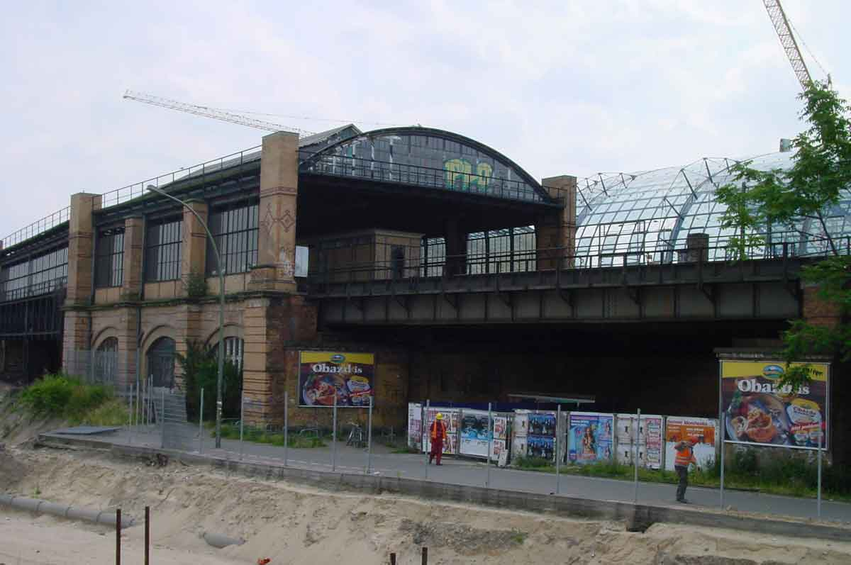 Berlin's former S-Bahn station "Lehrter Stadtbahnhof", in the background you can see the central station; Berlin, Germany